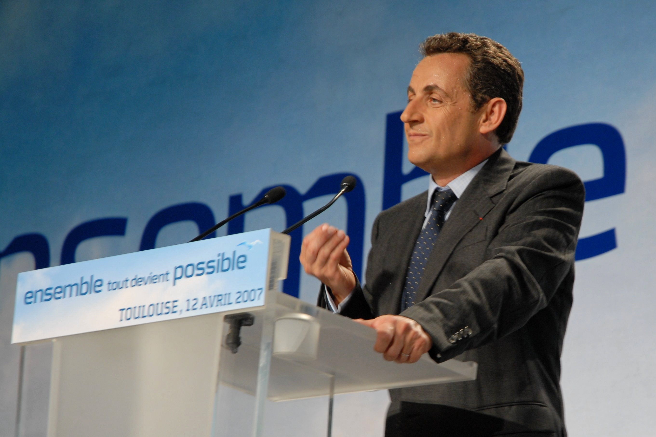 Nicolas Sarkozy during his meeting in Toulouse on April, 12th 2007 for the 2007 presidential election campaign.